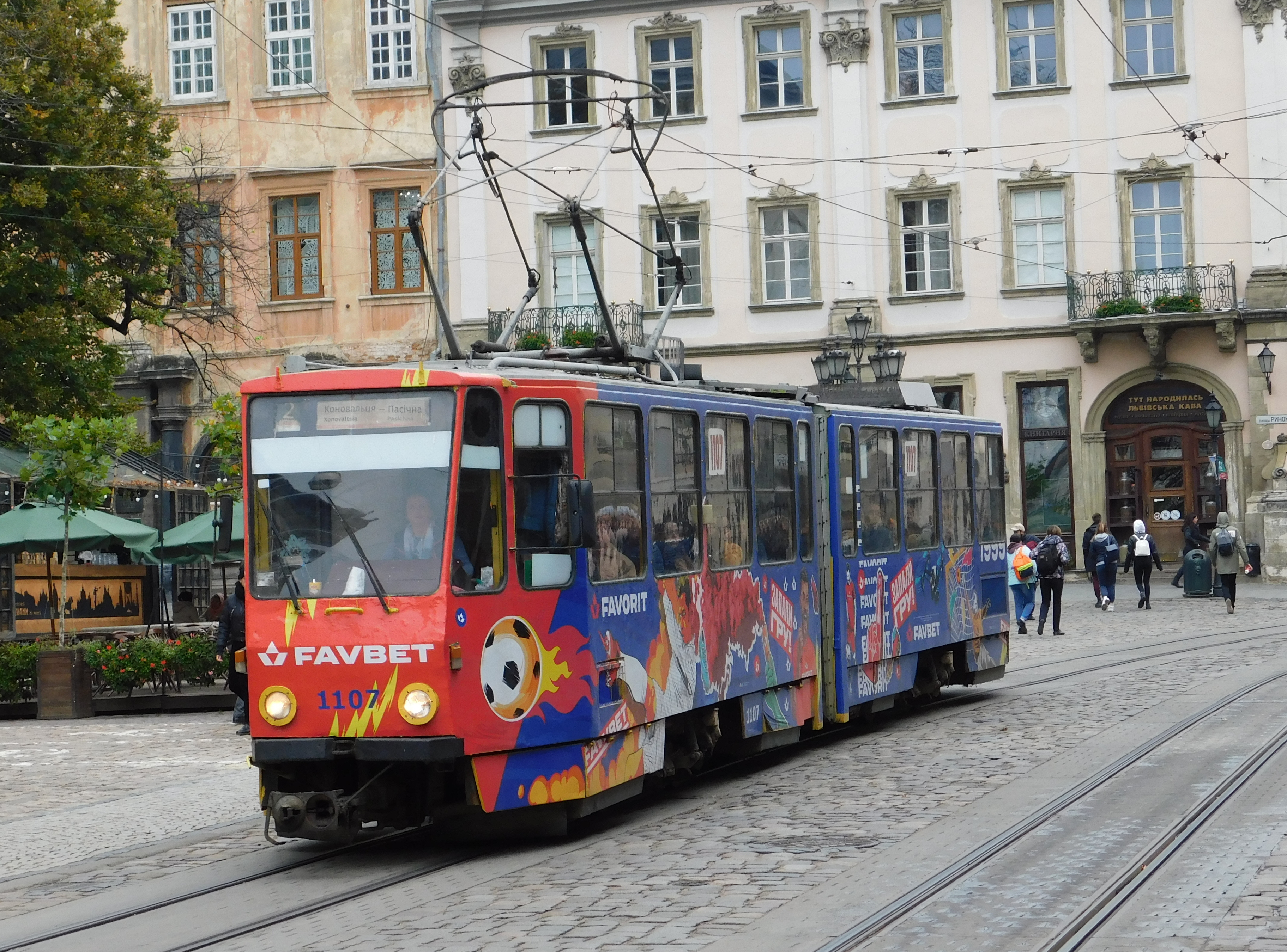 Tatra KT4SU no.1107 in Lviv, Ukraine, 9OCT19